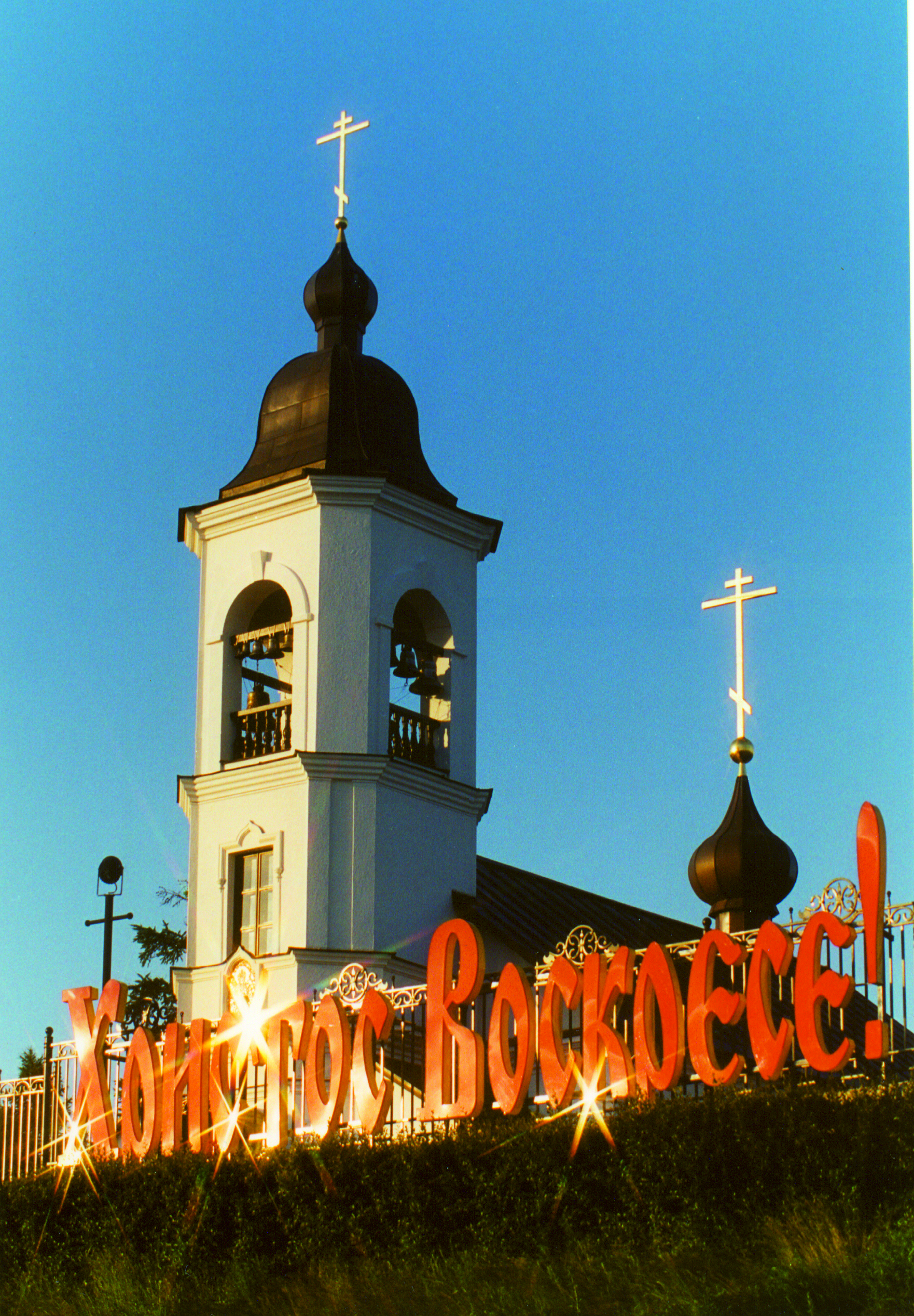 Christ is Risen!